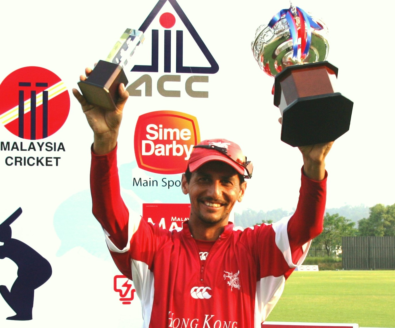 Tabarak Dar